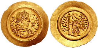 Lombards: Liutprand. 712-744 AD. AV Tremissis (1.27 g). Pavia mint. DN LI TPRAN, crude bust right; P in right field SCS MIHHIL, St. Michael standing left, holding long cross and shield. Bernareggi 8; Arslan 48; cf. MEC 1, 322 (P mark); cf. BMC Vandals pg. 143, 1 (P mark). EF, a trace of strike-through on the thin flan. From the Garth R. Drewry Collection. Ex Sotheby's Zurich (27-28 October 1993) [Athena Fund Sale], lot 1832.